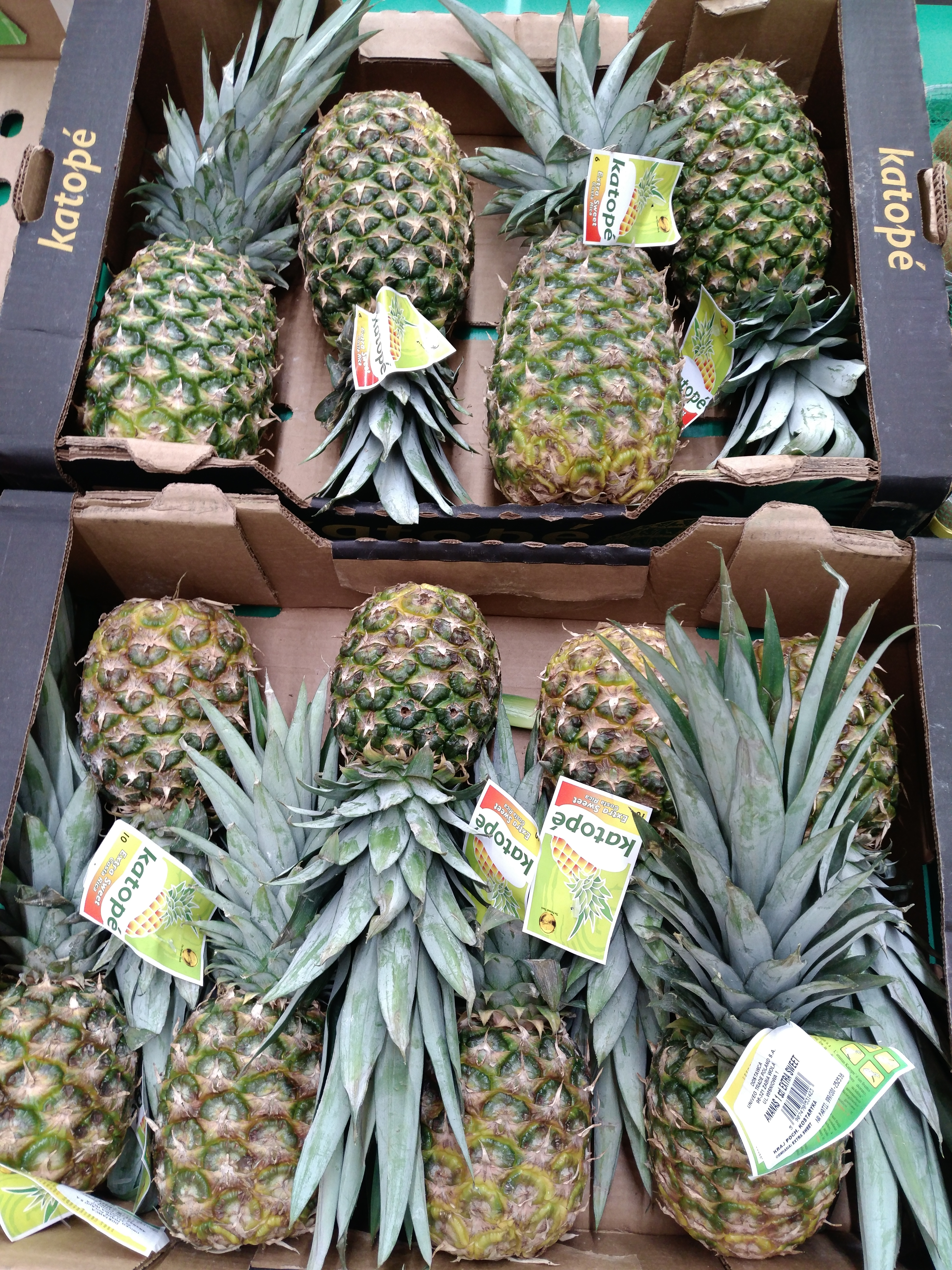 Pineapples